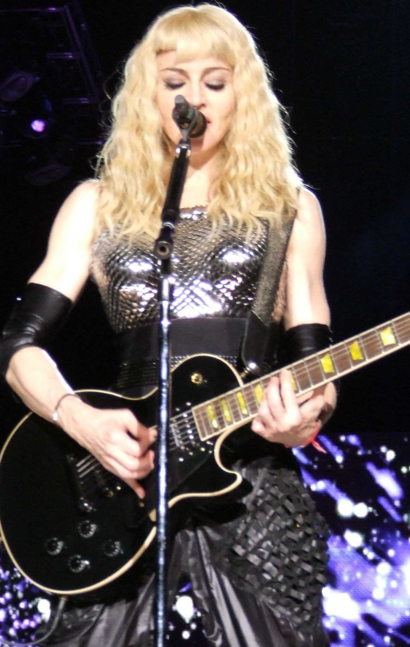 Madonna in vienna